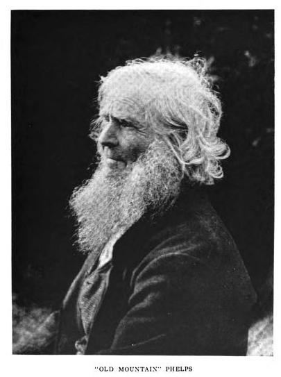 Image from Alfred Lee Donaldson's 1921 A history of the Adirondacks, Volumes 1 and 2 scanned and archived at where it was marked as Public Domain.